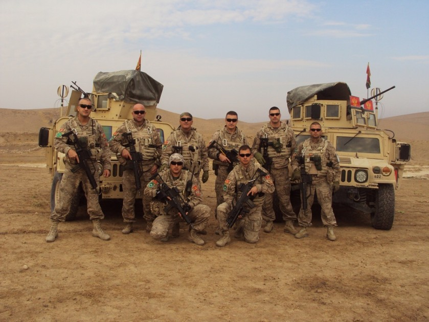 Military in Afganistan